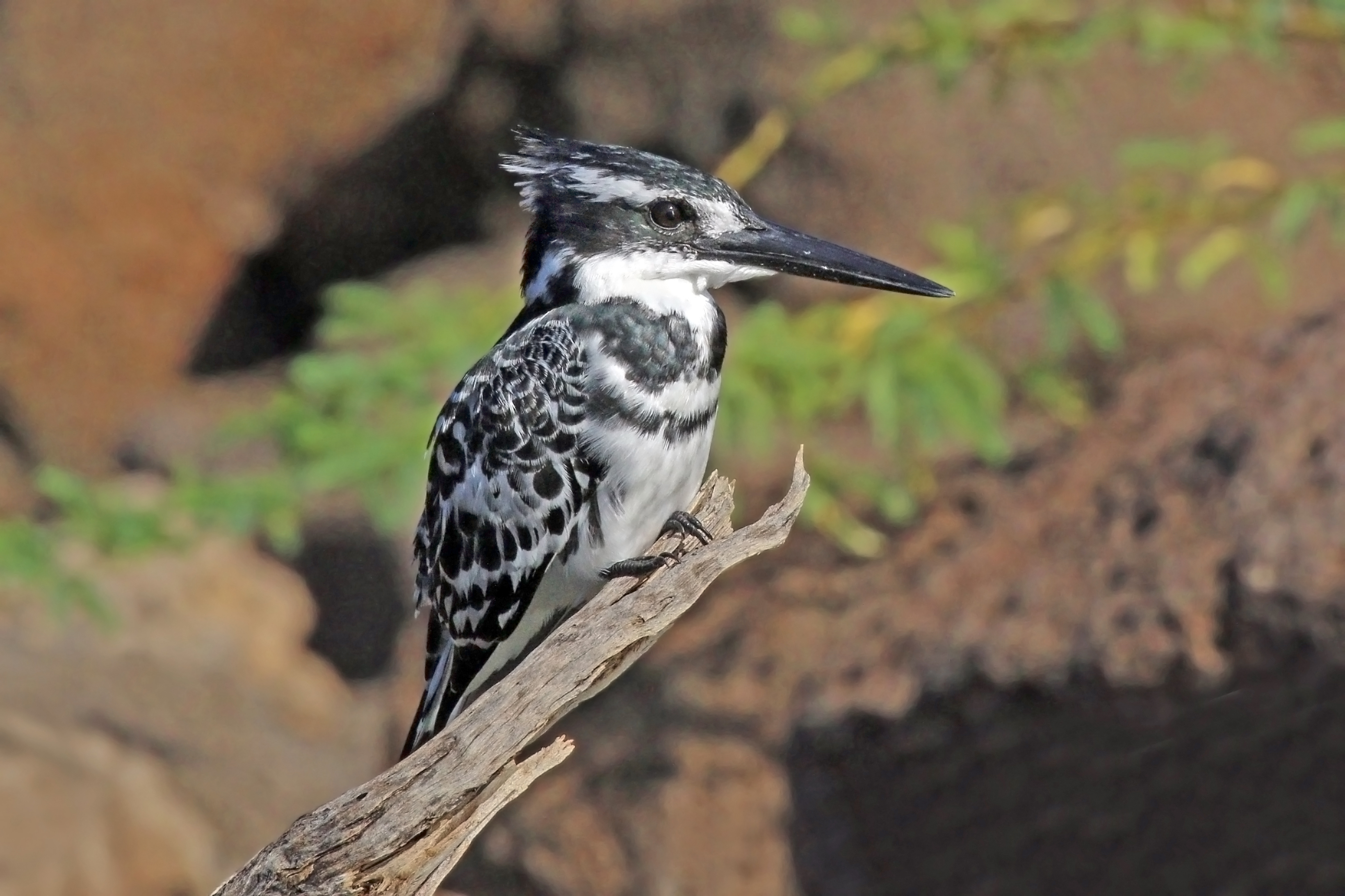 Pied kingfisher (Ceryle rudis rudis) male, Kazinga Channel, Uganda